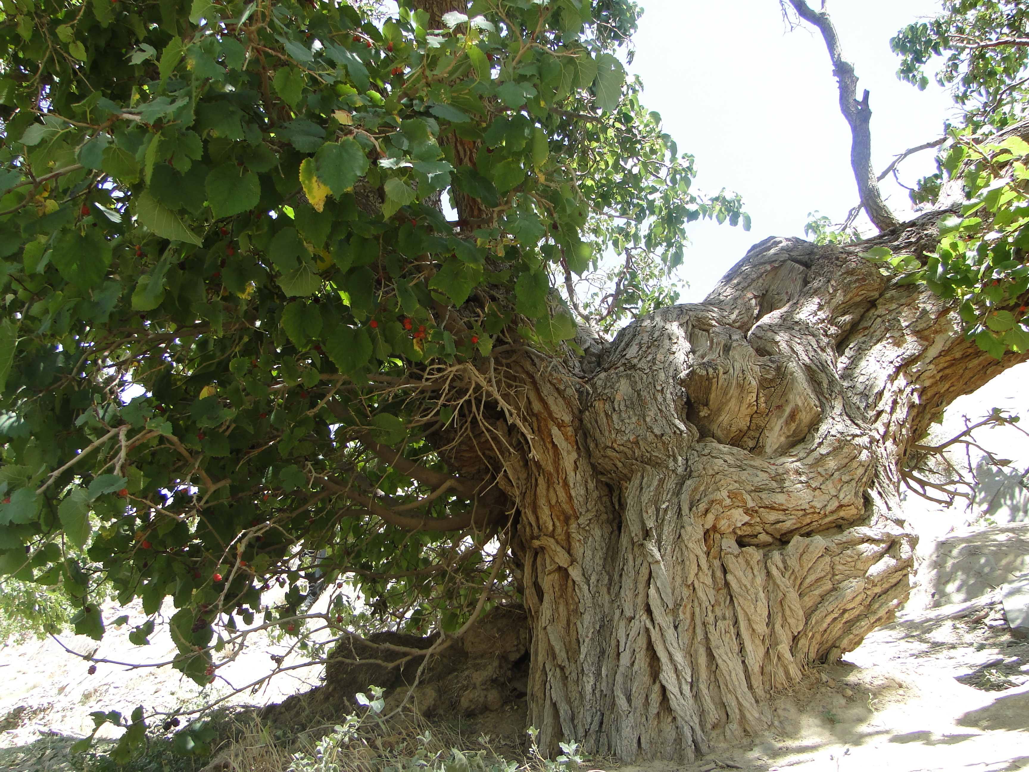 Derakhte-Shatoot-Sayyedan